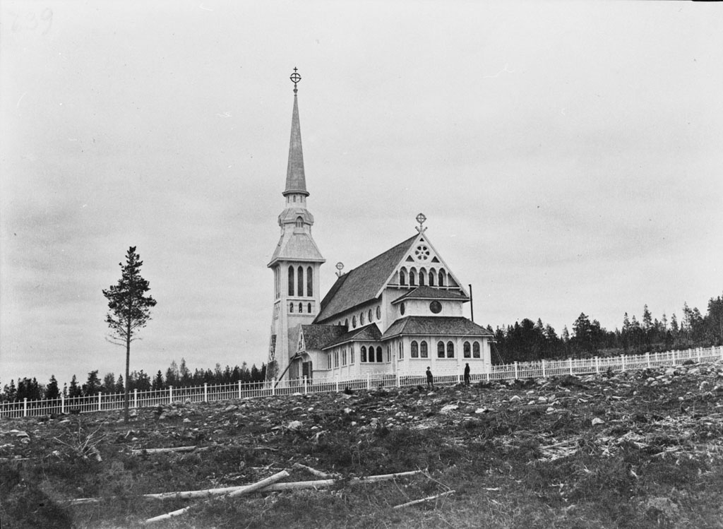 Harads Church (Edefors Old Church), built in 1888 and destroyed by fire in 1918. Format: Duplicate